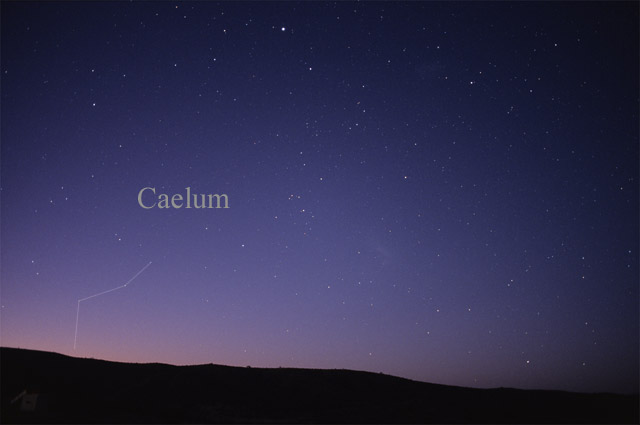 Photo of the constellation Caelum, the Chisel